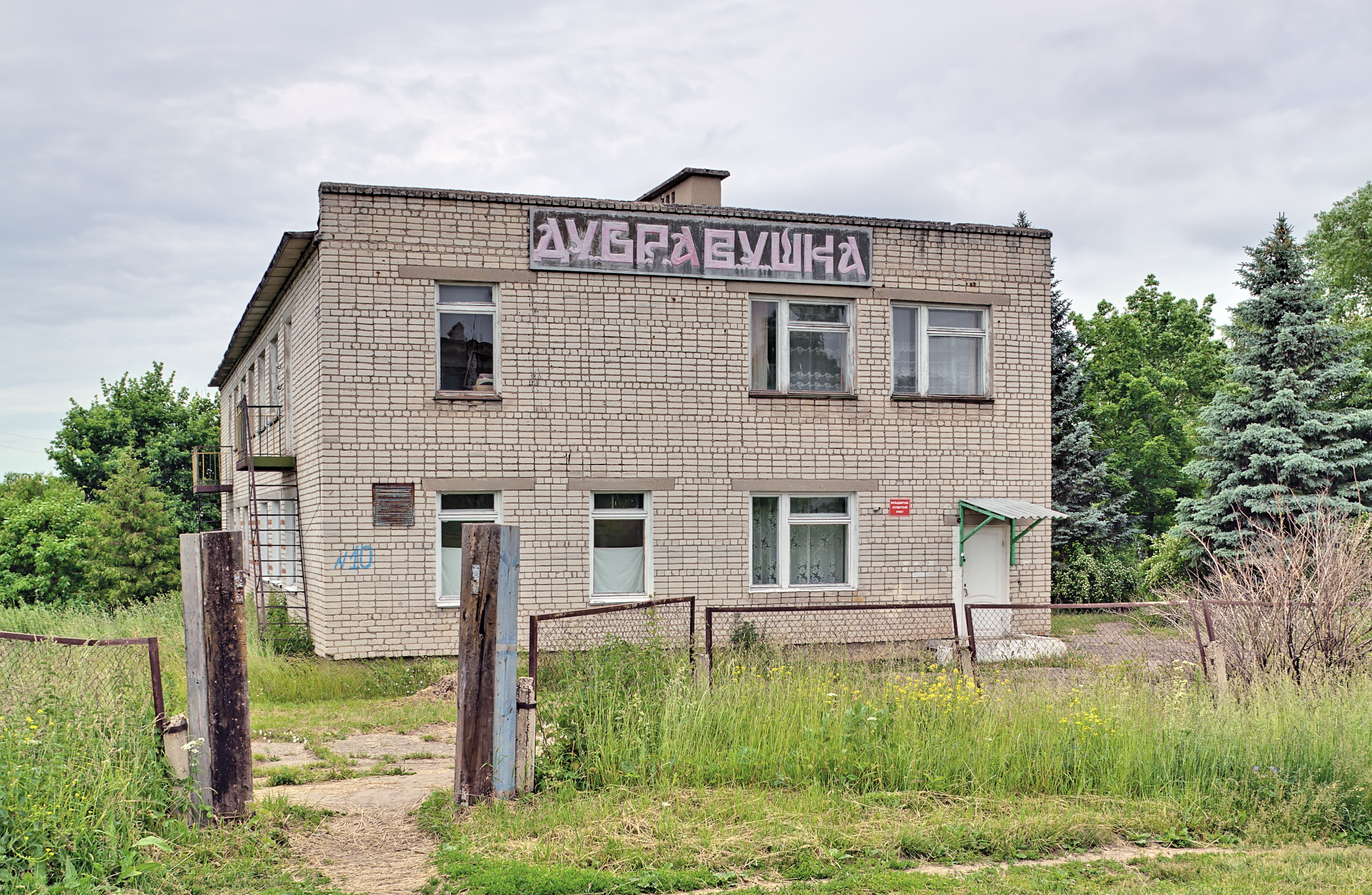 Kindergarten «Dubravushka» (i. e. «Little Oakery») in the Dubrovitsy village